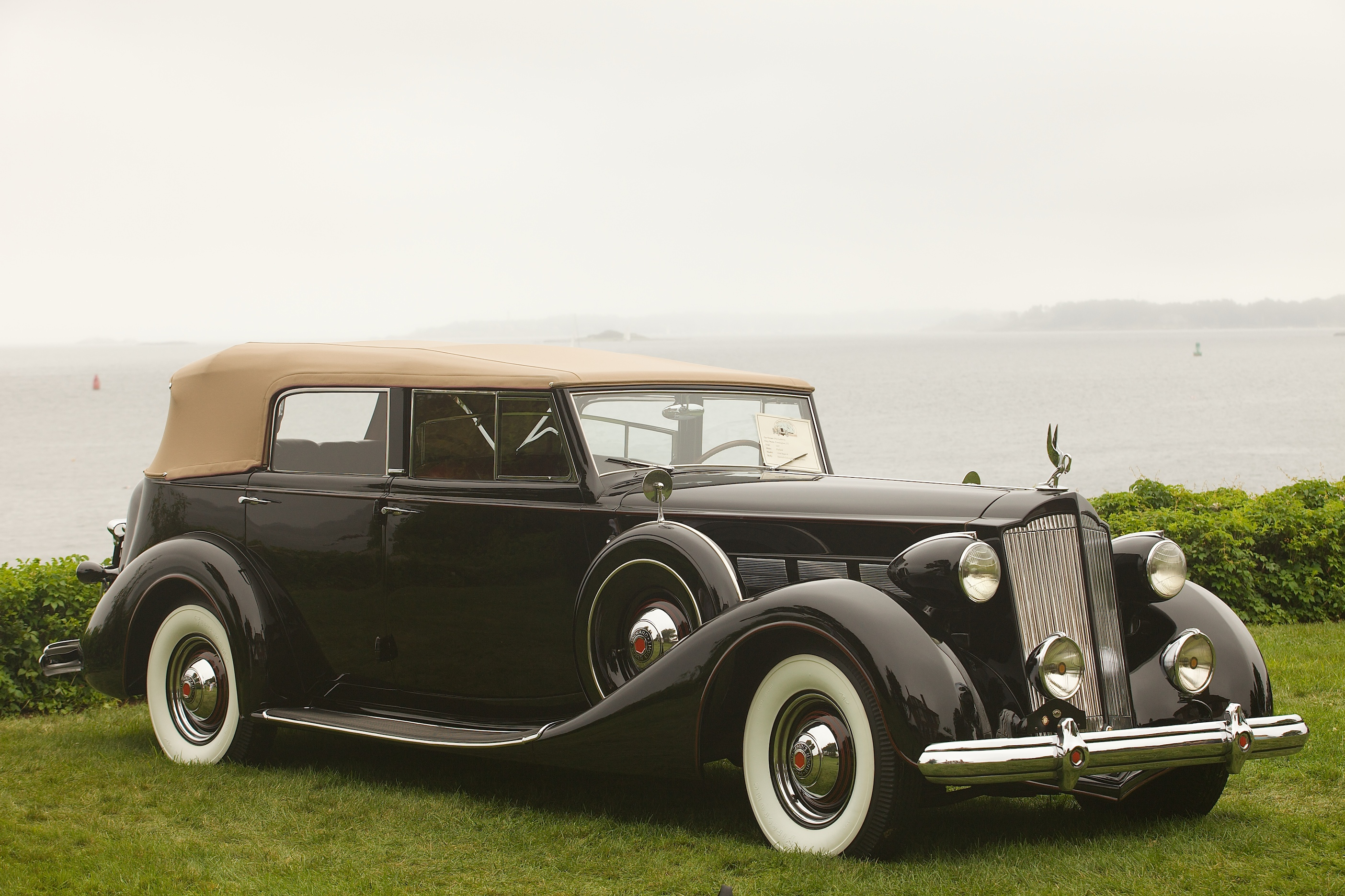 This 1937 Packard 1502 Super 8 Convertible was featured at the 2013 Misselwood Concours d'Elegance.